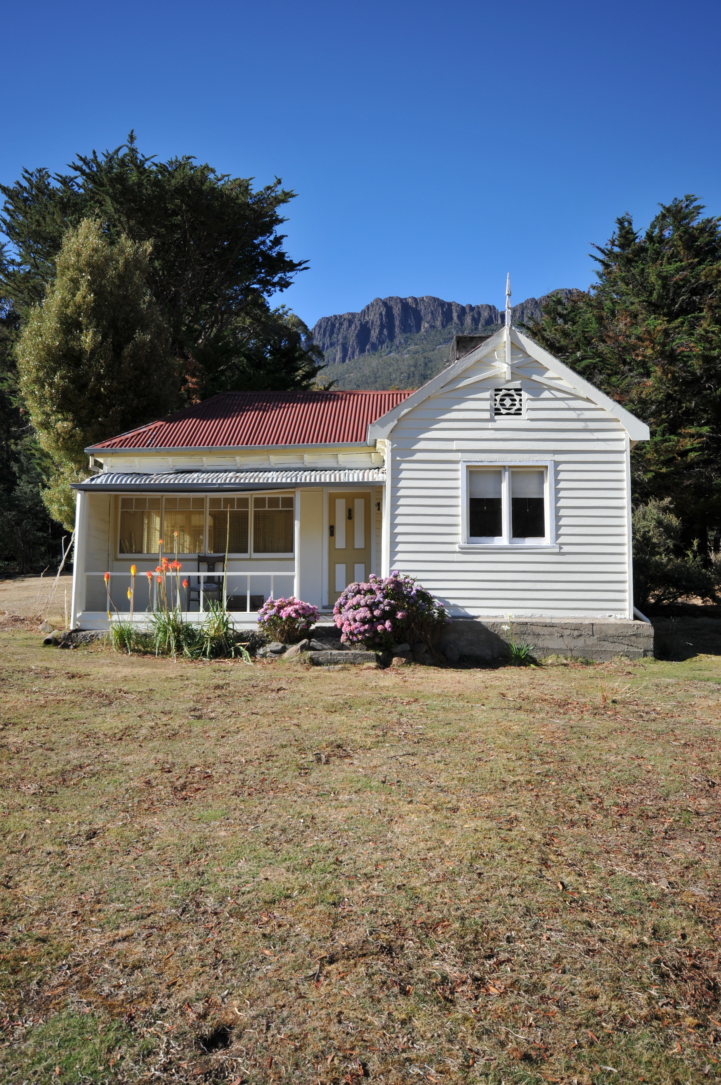 Bob Brown's former house at the base of Drys Bluff, Tasmania